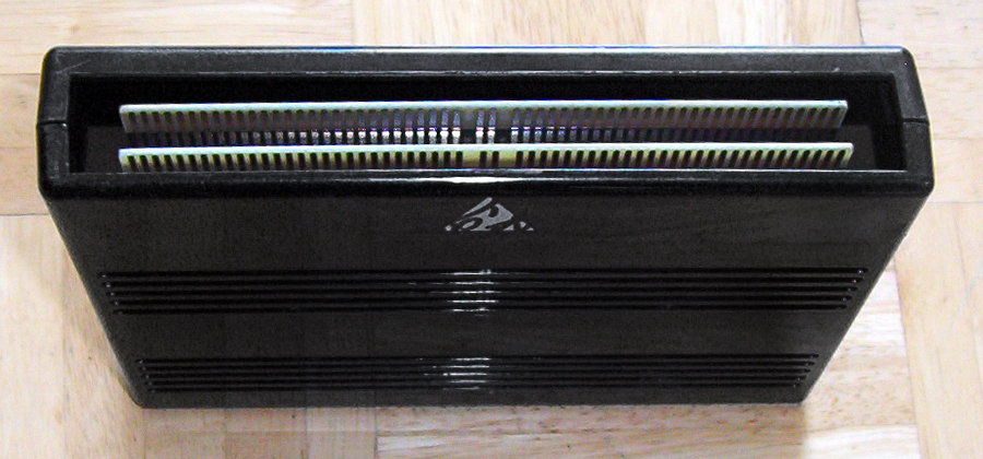 Neo Geo arcade game cartridge